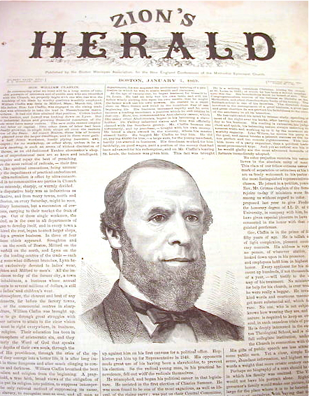 Detail: Zion's Herald newspaper, 1869. Published by the Boston Wesleyan Association, for the New England Conferences of the Methodist Episcopal Church. Gilbert Haven, Editor